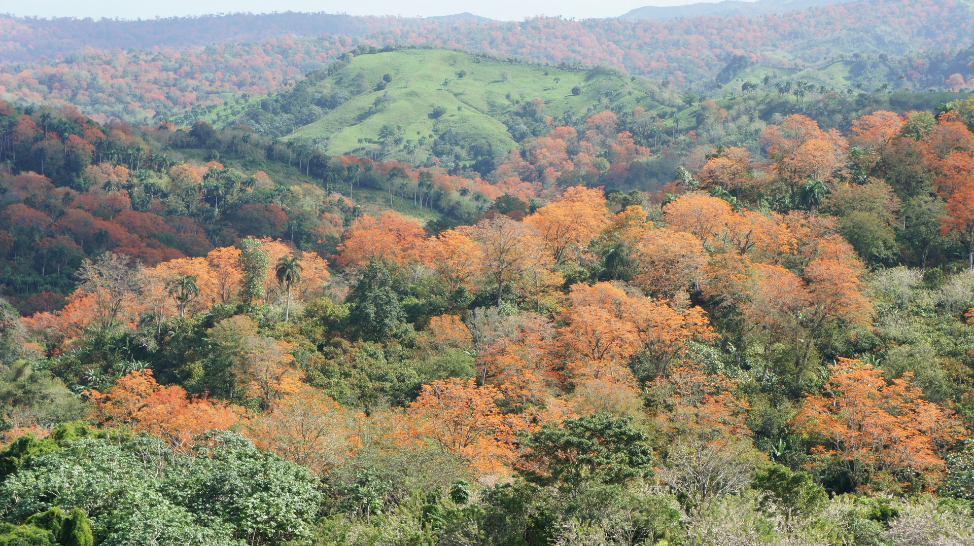 Amapolas Jobanas vistas desde los altos del Guaranal Habitad van Psittacara chloropterus